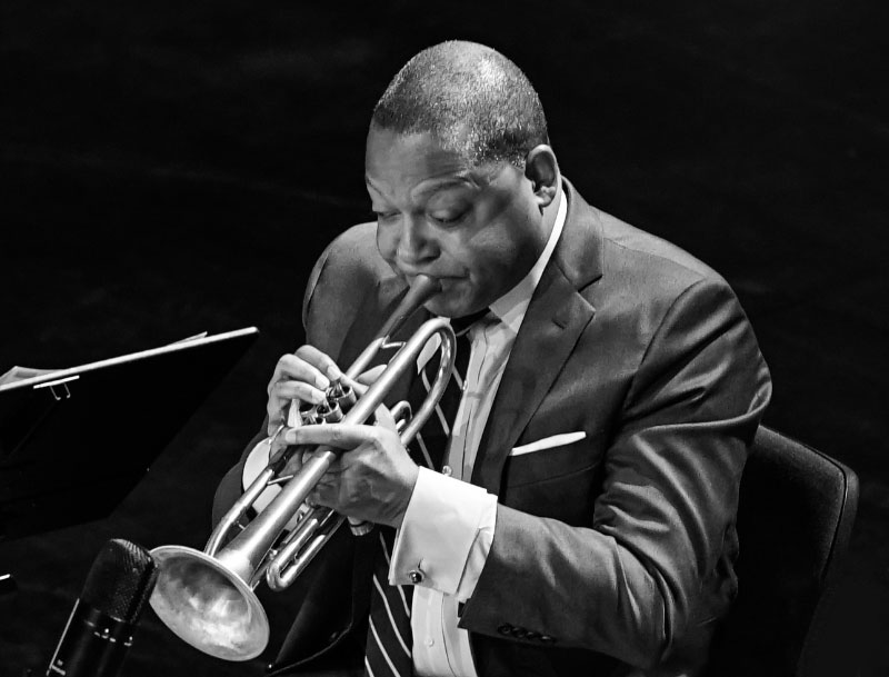 Wynton Marsalis playing with Jazz at the Lincoln Center Orchestra (Aalborg, Denmark 2020)